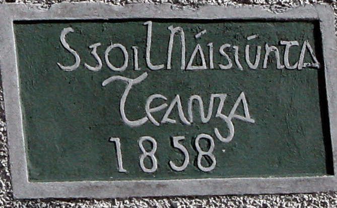 Plaque on the wall of Tang National School